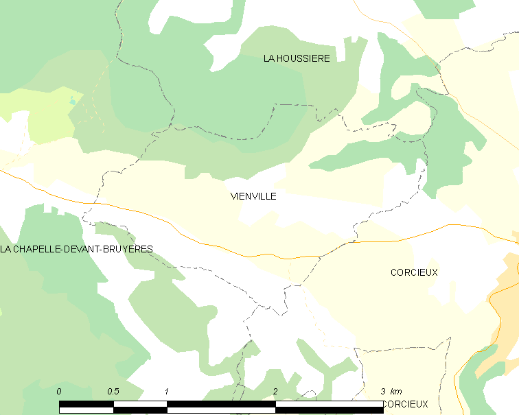 Map of French municipality Vienville